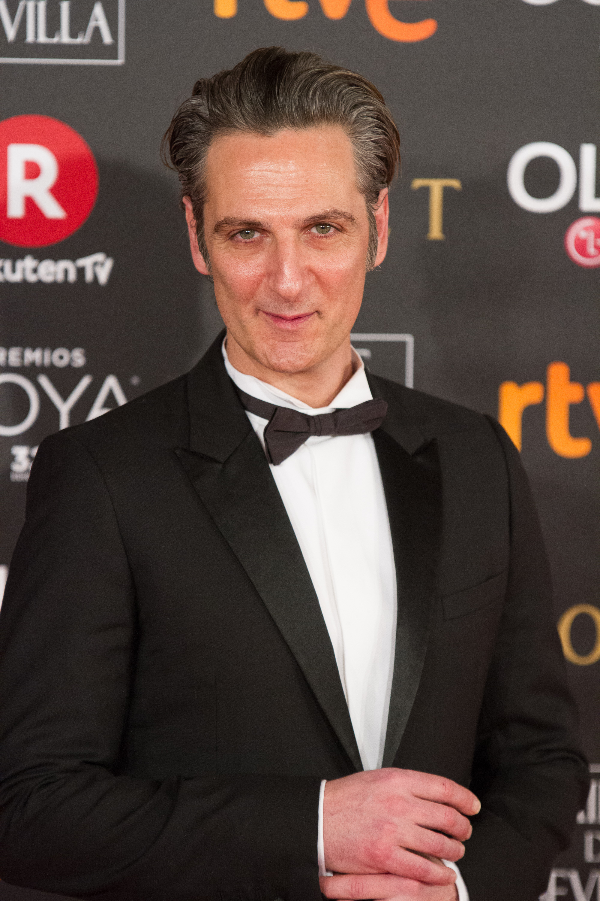 32nd Goya Awards, 2018.